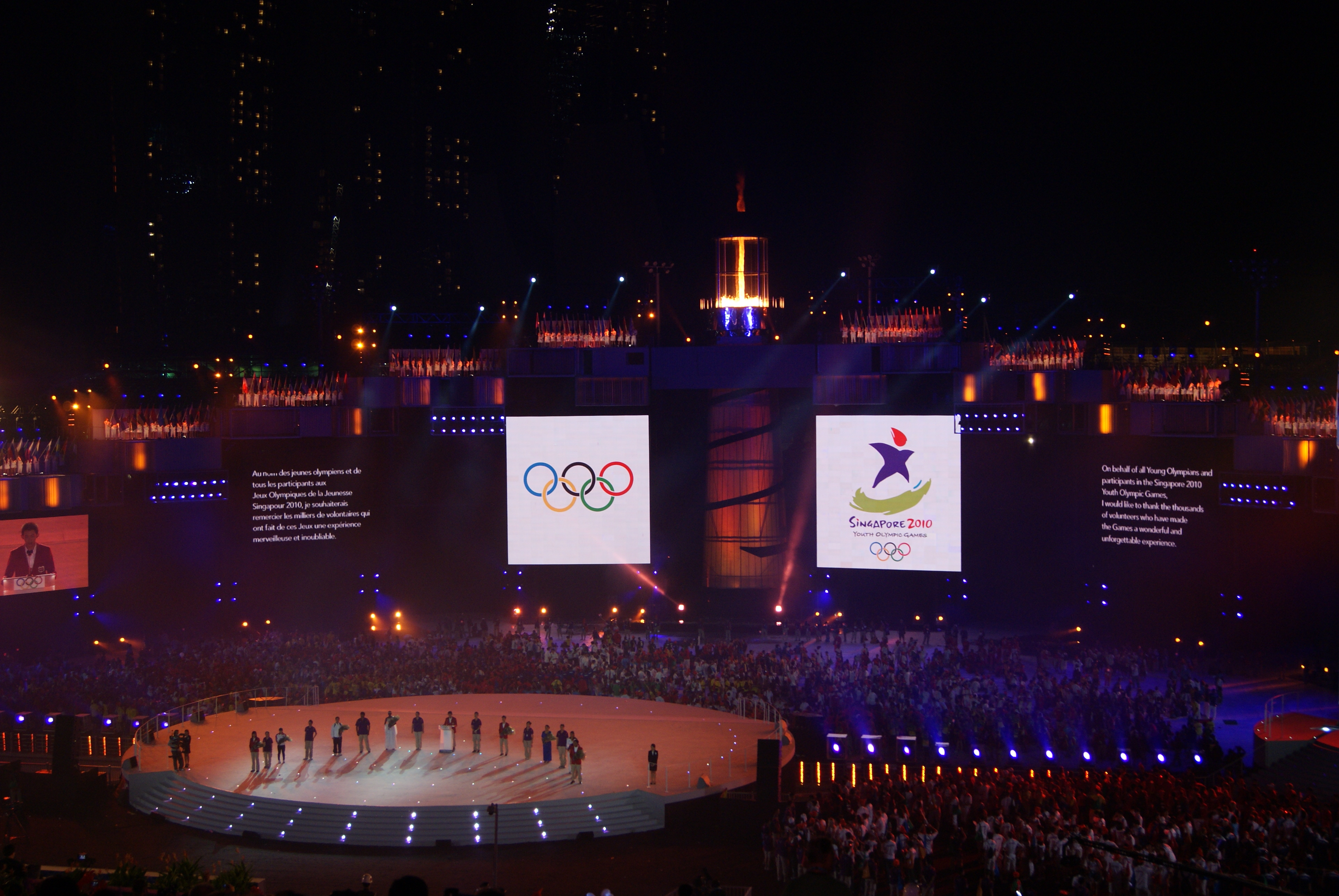 Volunteers are thanked during the Protocol segment of the 2010 Summer Youth Olympics closing ceremony at The Float@Marina Bay, Singapore.